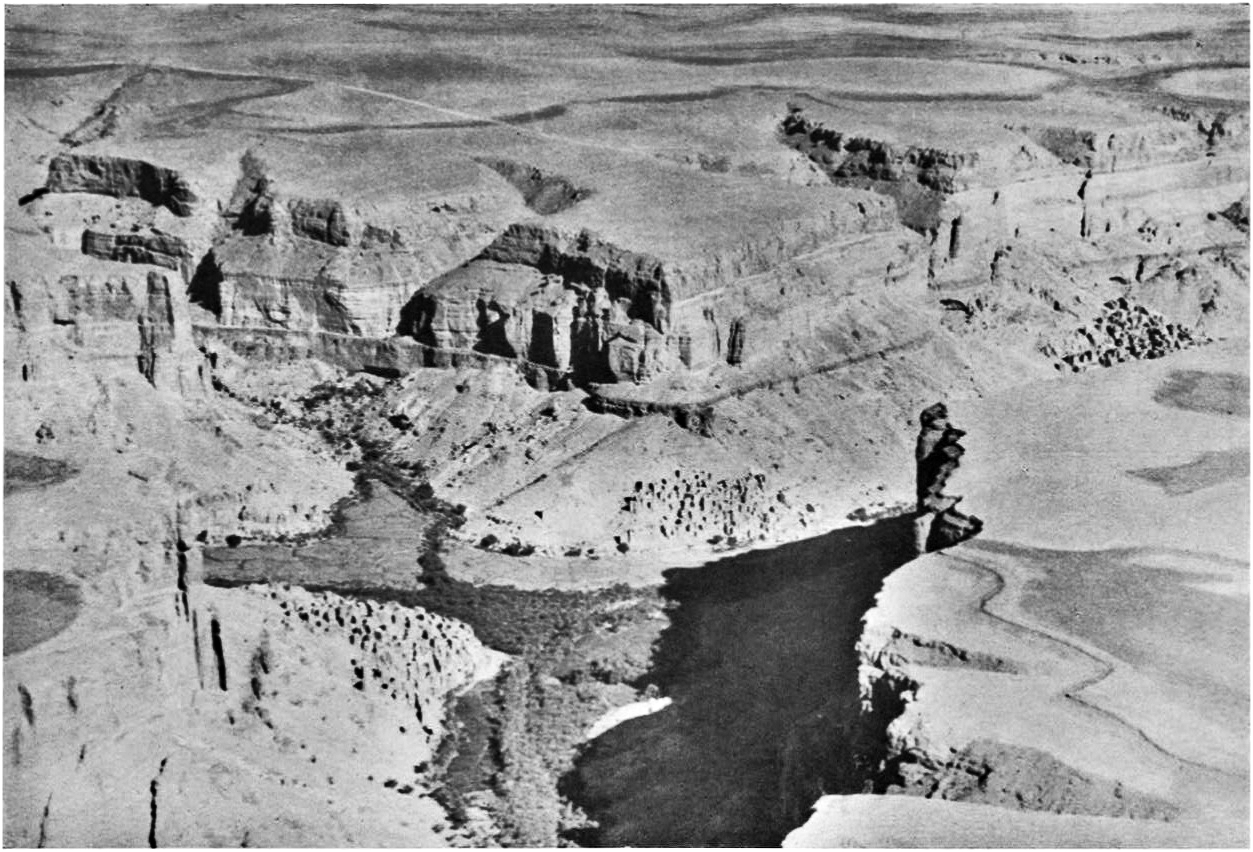 Villages at the head of Wadi Dawan, Hadhramaut (Yemen). Picture taken during the first air reconnaissance over the Hadhramaut in November 1929.